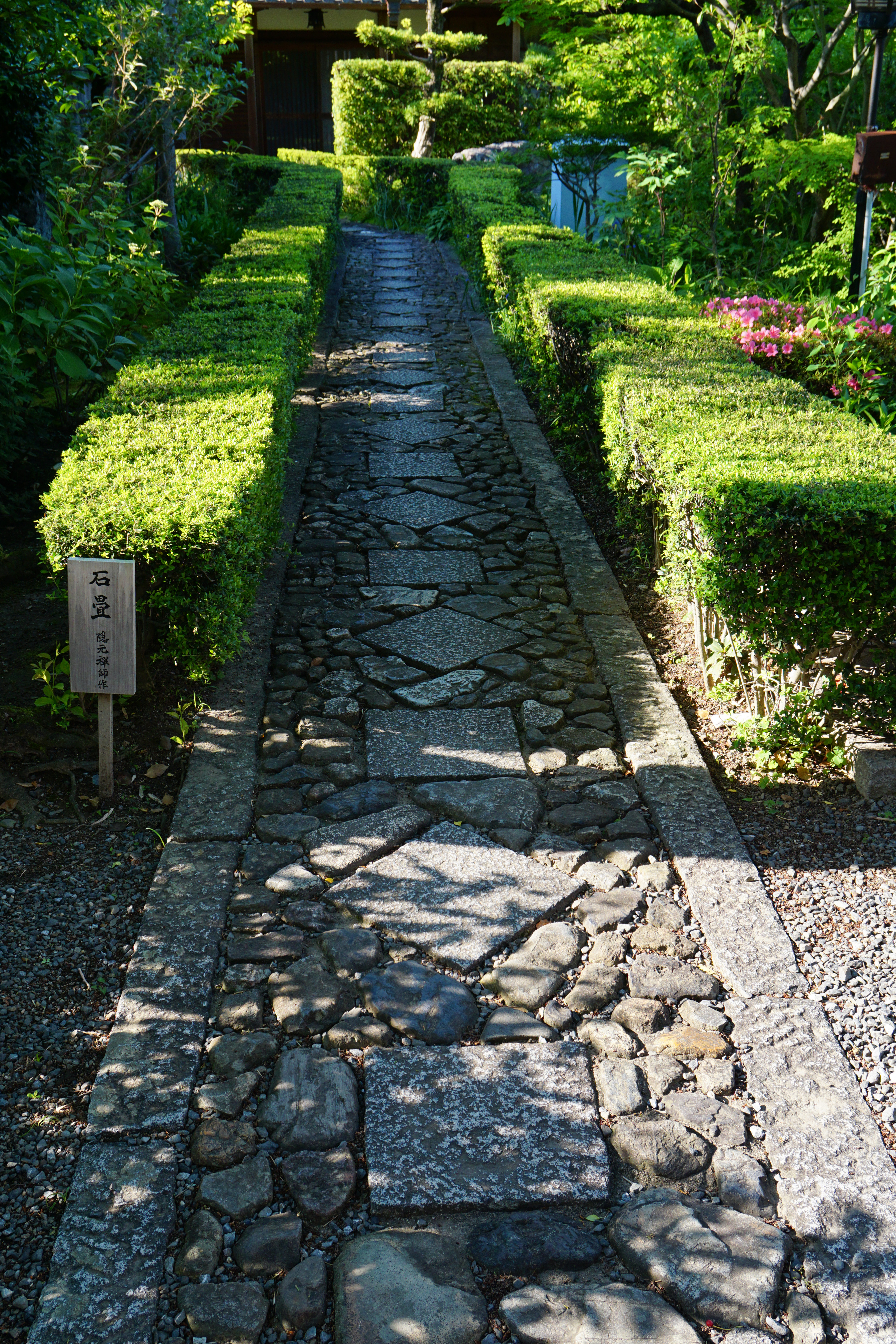 Fumonji in Takatsuki, Osaka prefecture, Japan